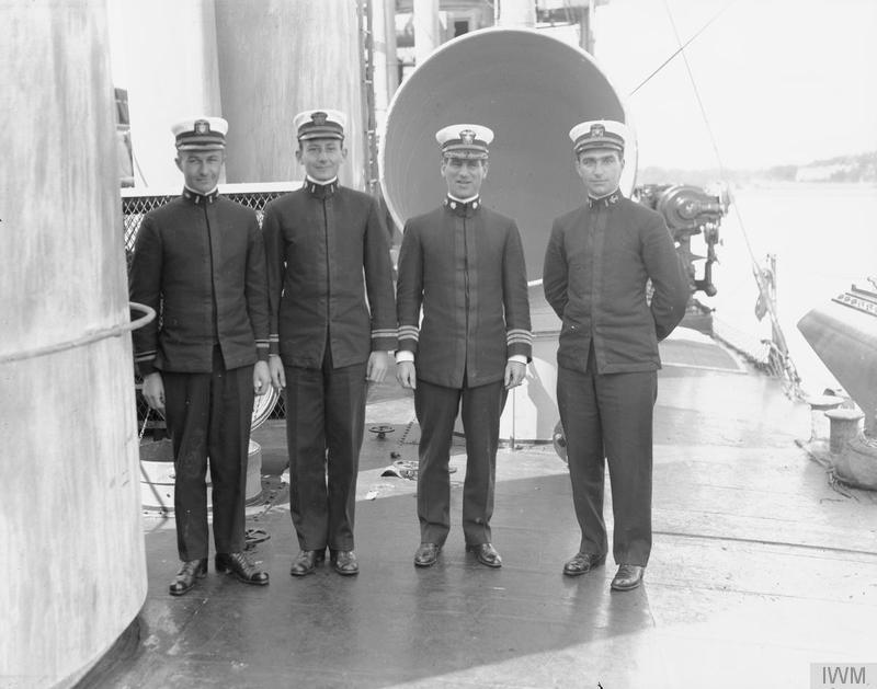 The United States Navy during the First World War Officers of USS Wadsworth: Lieutenant J. G. Broadbent, Commander Taussig (Captain of USS Wadsworth), Lieutenant. J. G. Flags, and Surgeon Tanner.